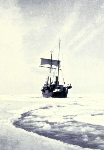 The Quest pushing north through rapidly freezing ice.